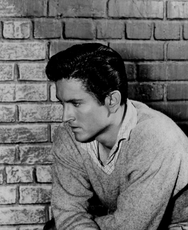 Photo of John Drew Barrymore from an appearance on Schlitz Playhouse of Stars in 1953.